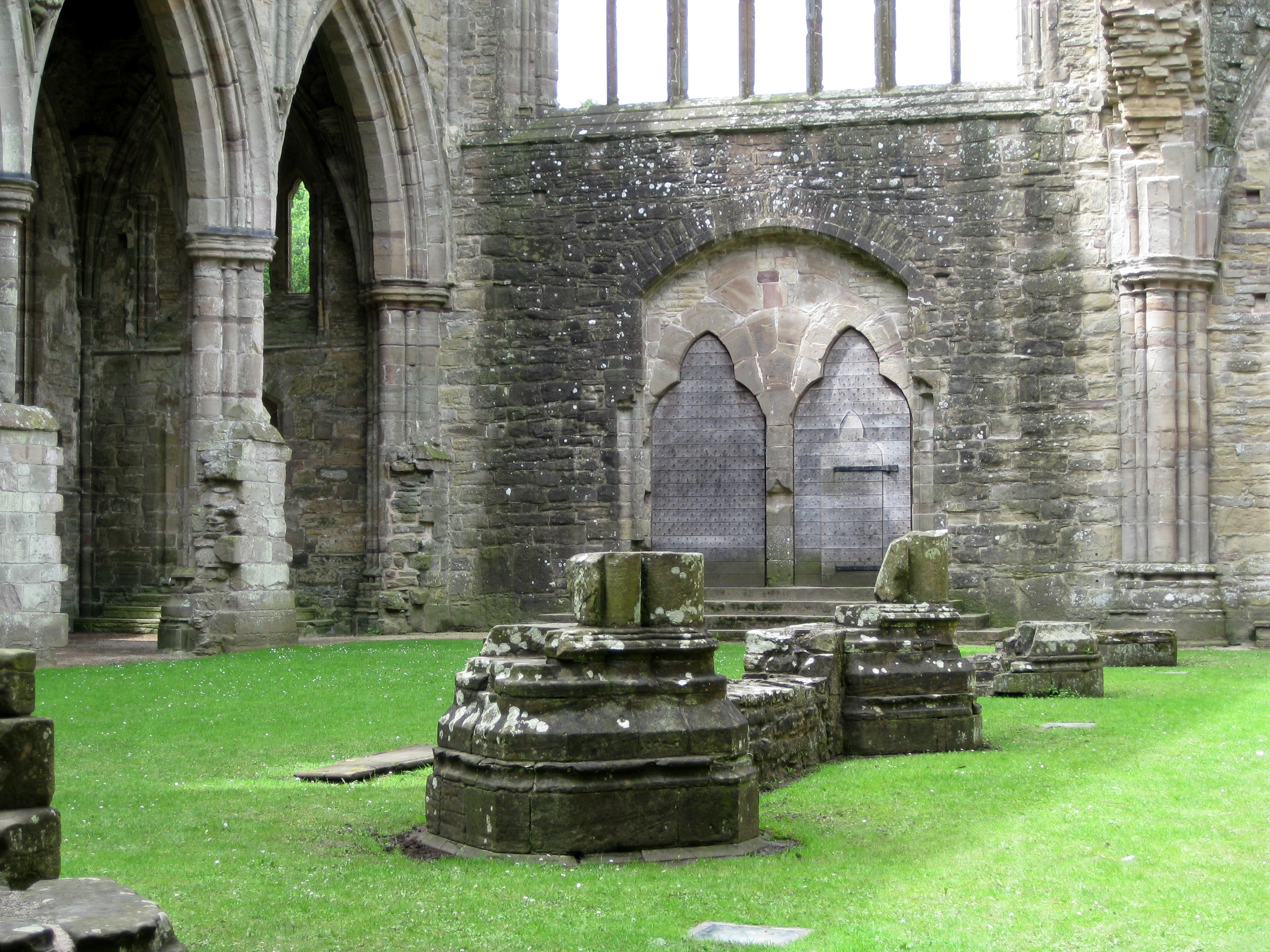 The nave of the Abbey Church, Tintern Abbey, Monmouthshire, UK